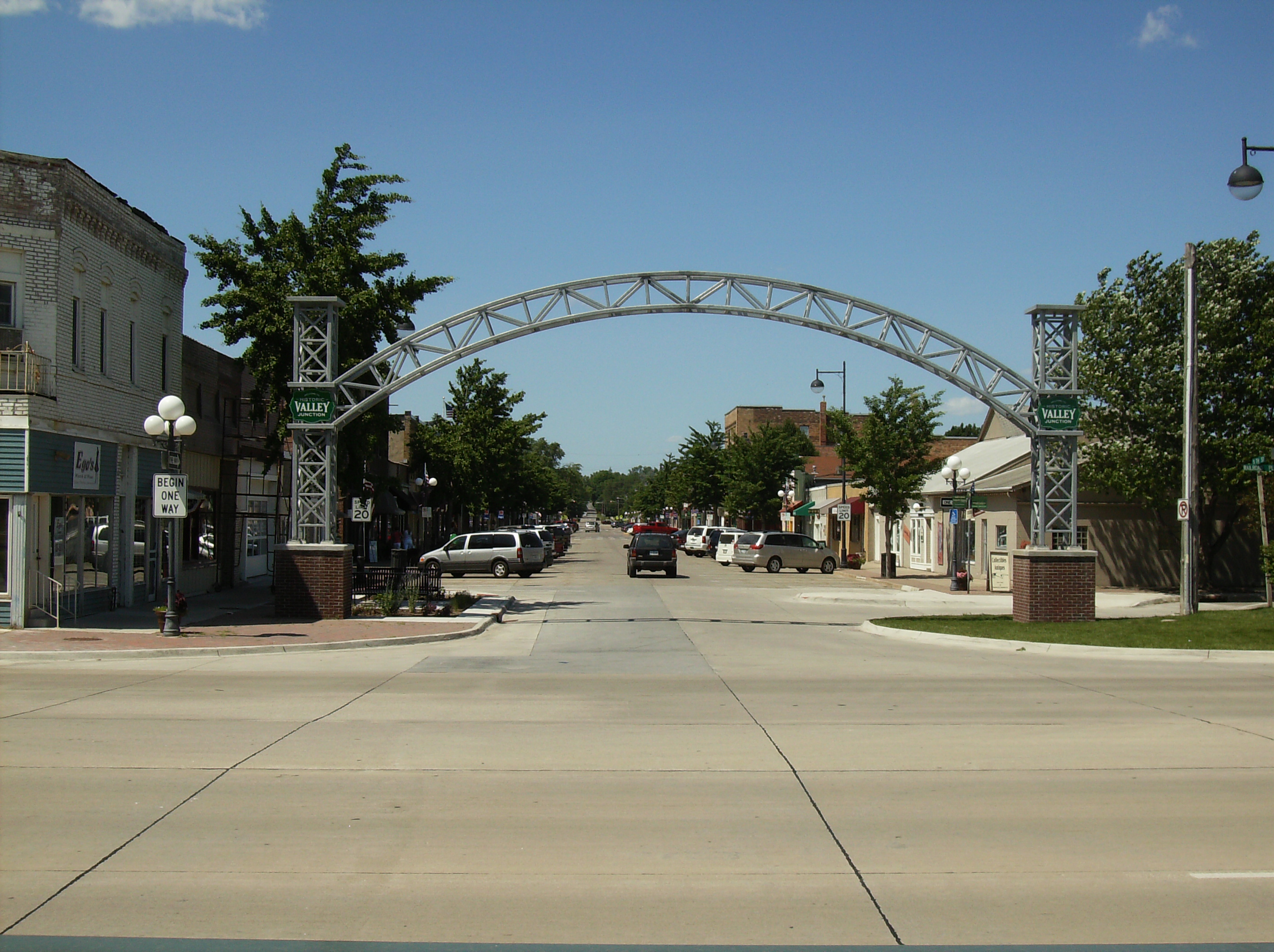 Historic Valley Junction in West Des Moines, Iowa. While the arch is not considered historic, the buildings immediately behind it are contributing properties in the Valley Junction Commercial Historic District.